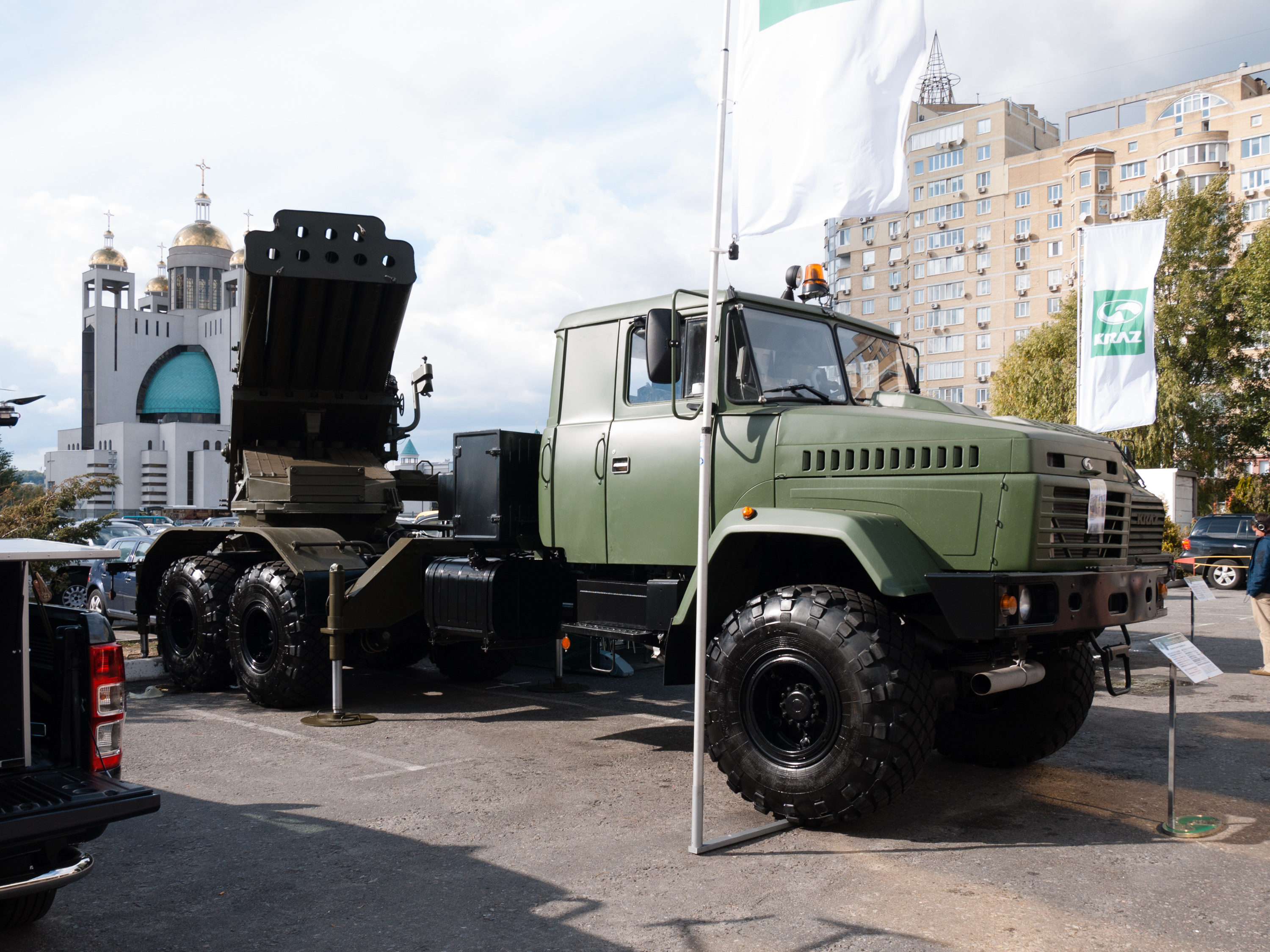 Uragan MLRS on KrAZ-63221 chassis (Ukraine)